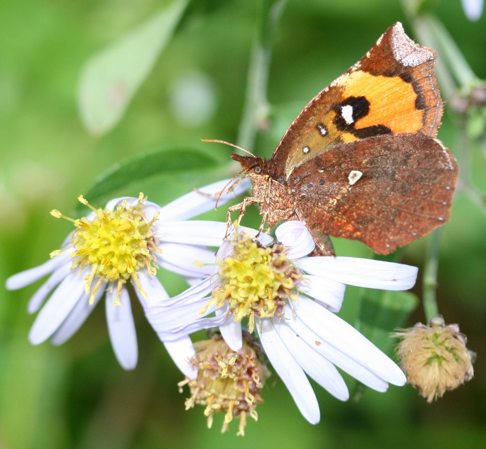 Pterodecta felderi and_Aster_ageratoides_ssp._Leiophyllus